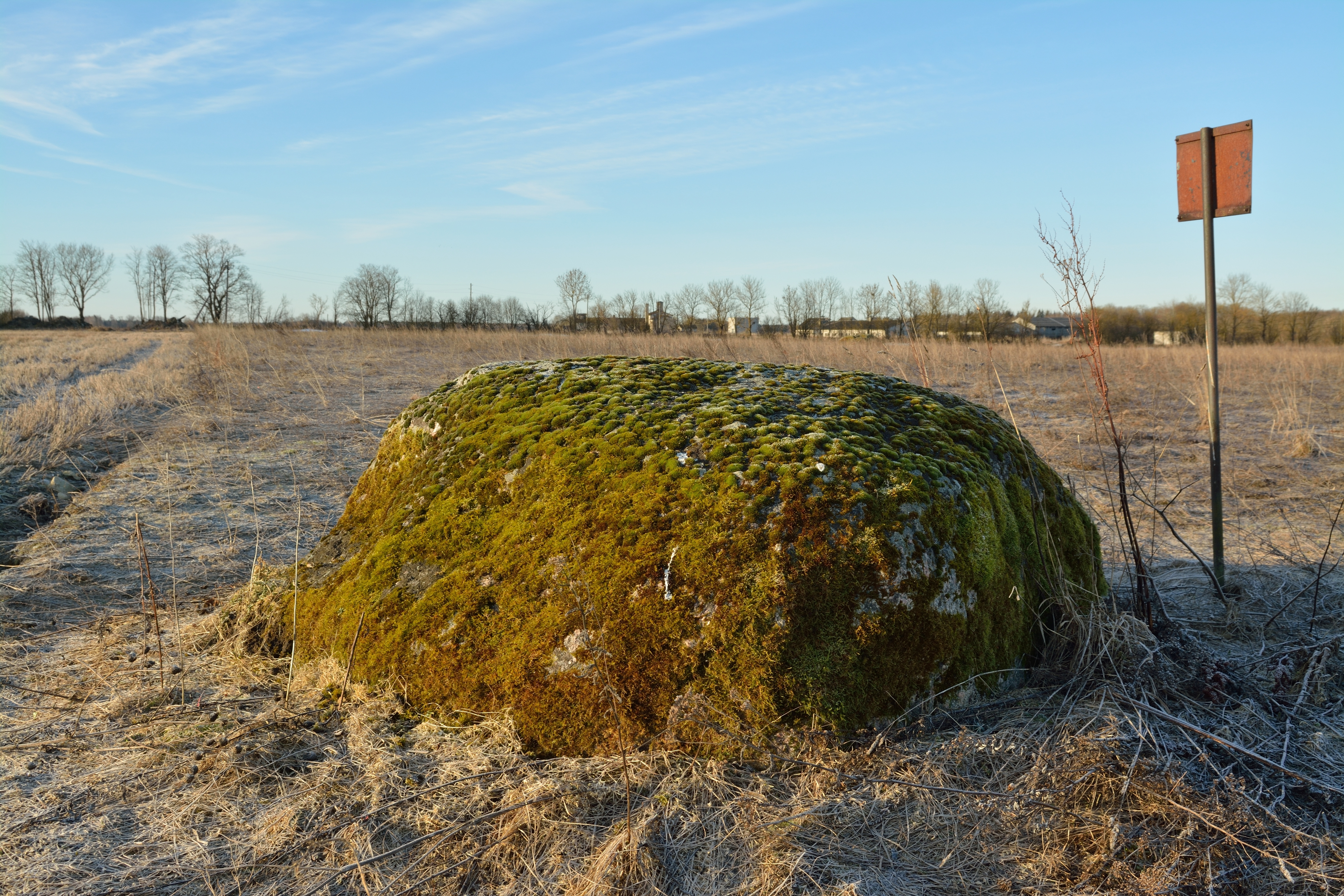 Offering stone in Pahkla village